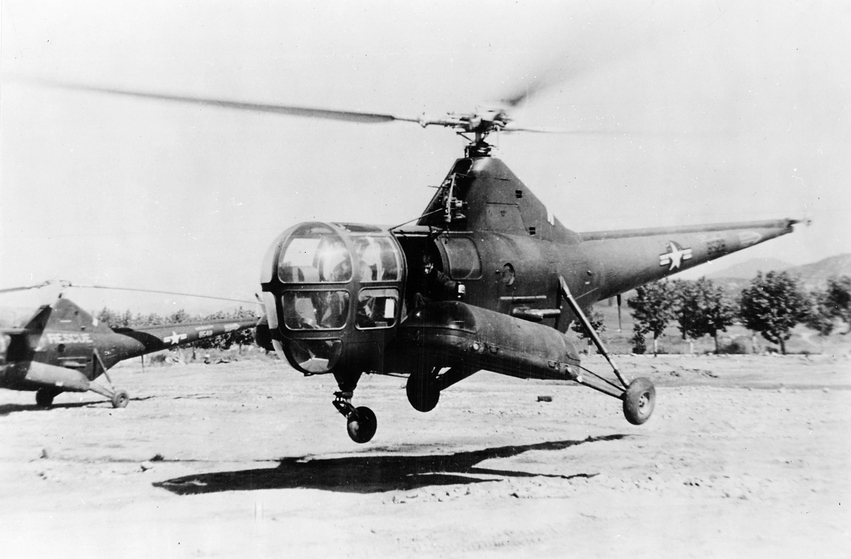 Two U.S. Air Force Sikorsky H-5G rescue helicopters (s/n 48-528, 48-549) in Korea, 1952. Original caption: "Airborne Mercy---Whole blood is administered to an airborne casualty, enclosed in a metal capsule attached to the side of an Air Rescue helicopter about to land at an advanced air station in Korea. Medical technician holds life-giving bottle over the wounded man during the 45-minute flight from the front lines.: ca. 12/31/1952"